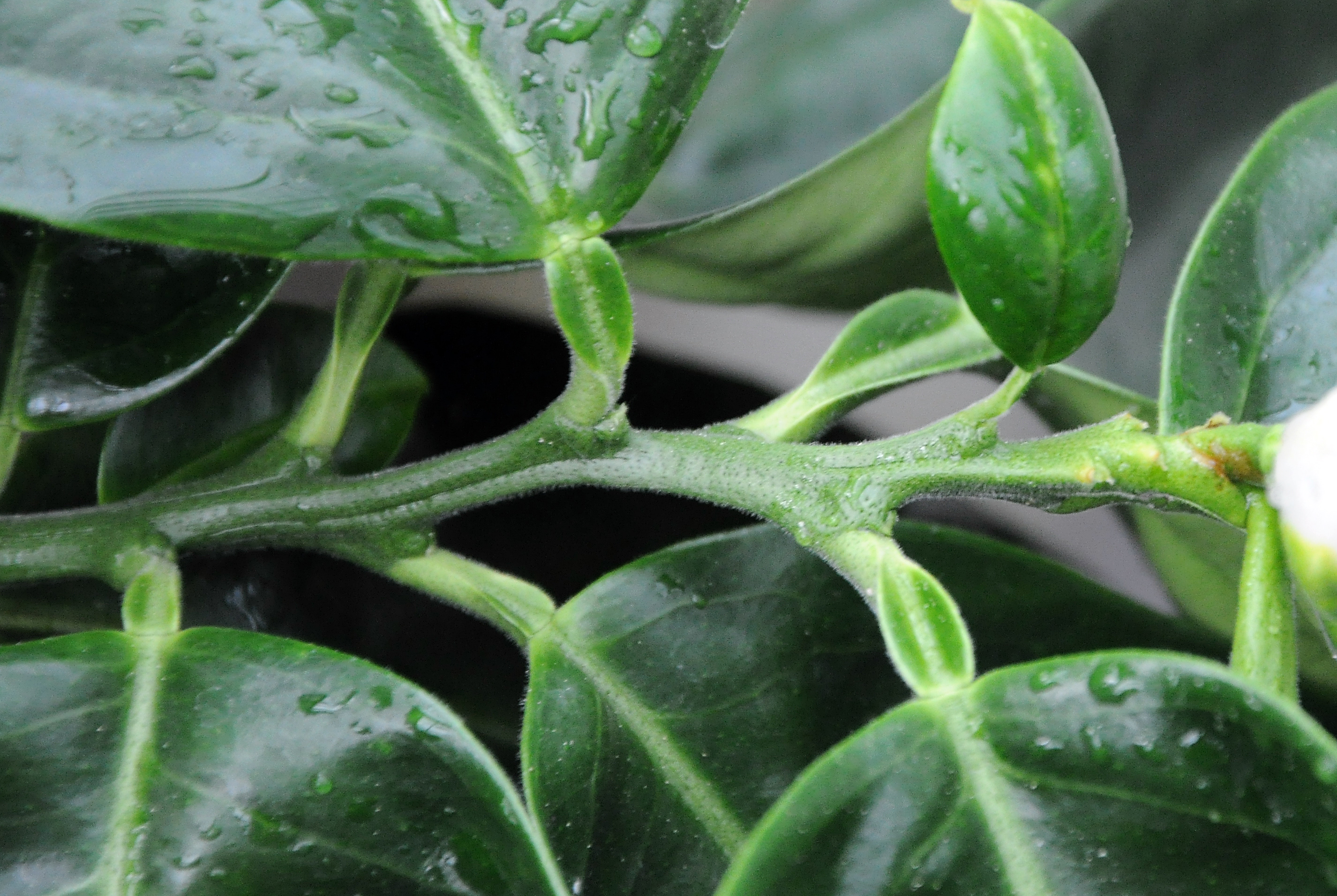 Pomelo